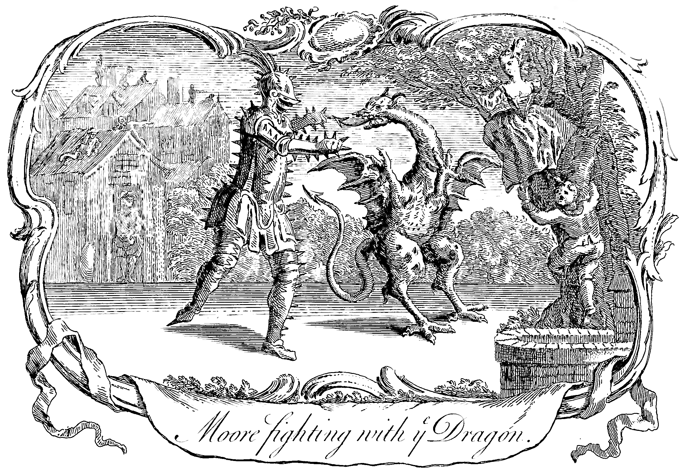 Lampe - The Dragon of Wantley - Moore fighting with ye Dragon - "Oh hoh Master Moore" In: George Bickham: The Musical Entertainer, Vol. 2, p. 32